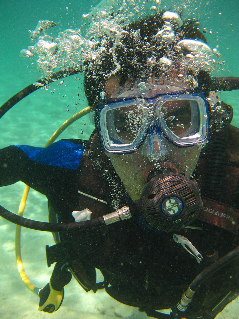 Let's start the expedition. Scuba diving in Culebra Island.